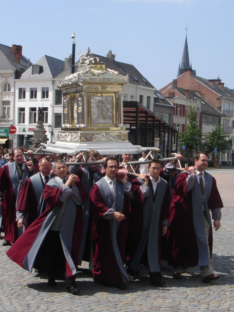 Saint Rumbold's reliquary, carried within the city — on Veemarkt (Cattle Market), Mechlin